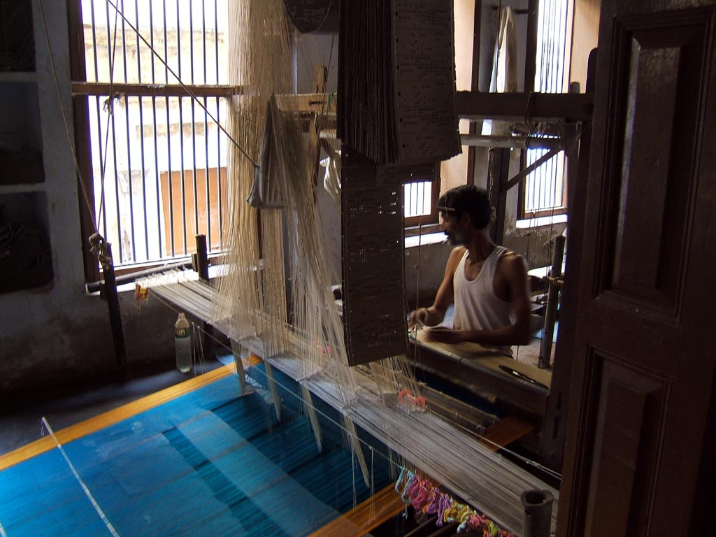 Weaver in a silk weaving workshop; Varanasi, Uttar Pradesh, India.